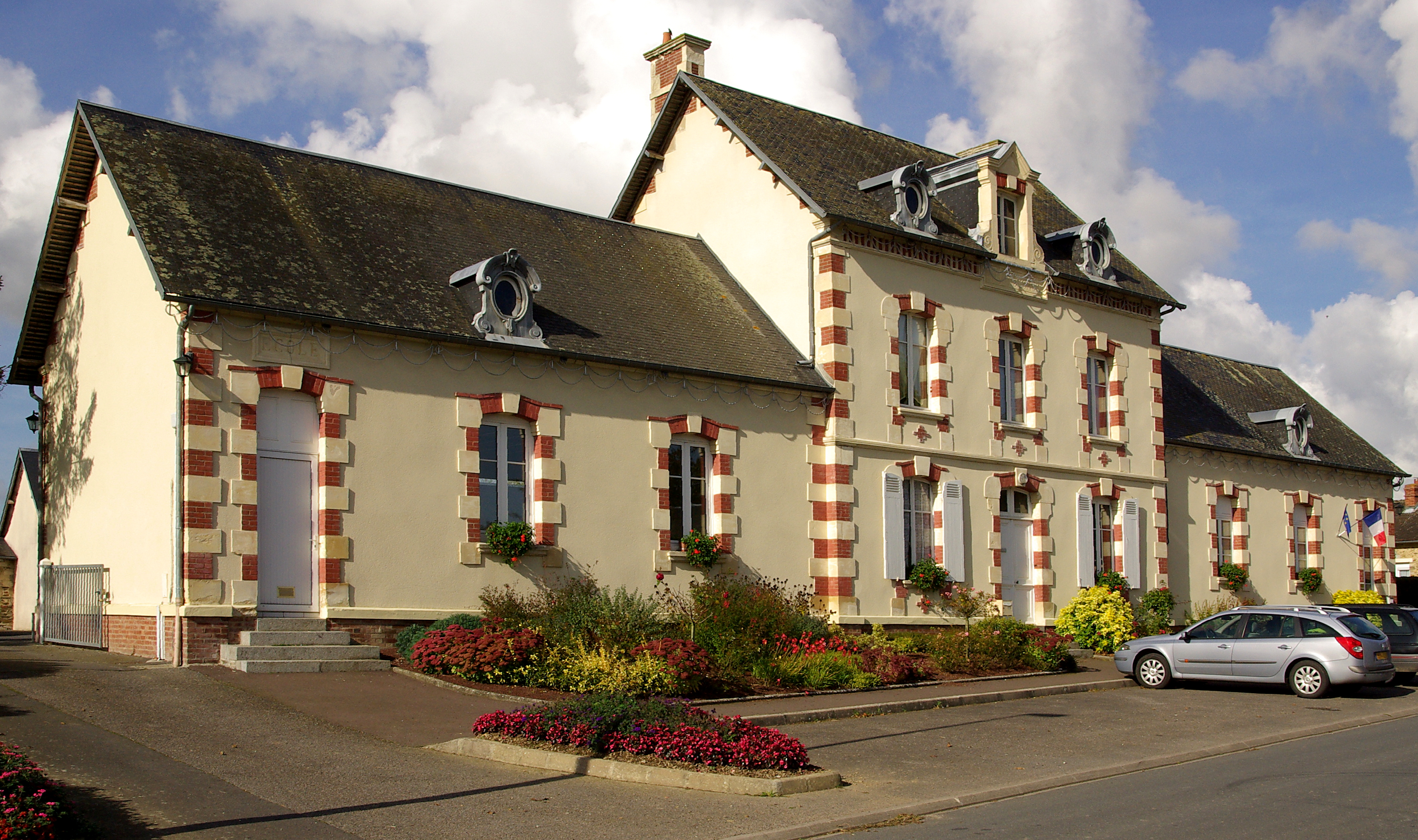 Tracy-Bocage's Town Hall.